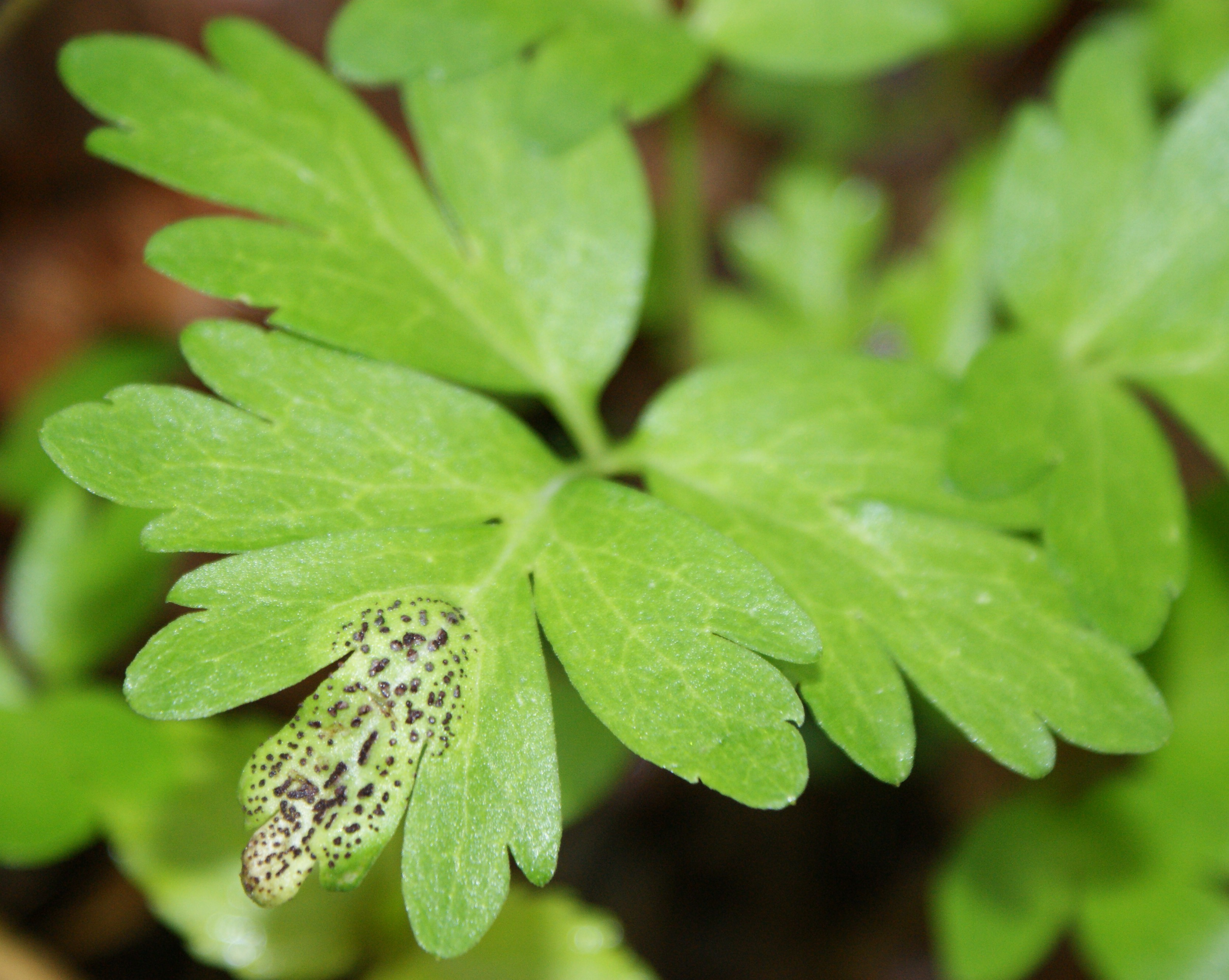 Puccinia adoxae on Adoxa moschatellina leaf